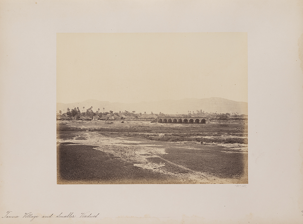 Title: Tanna Village and Smaller Viaduct Alternative Title: [Thane Village and Smaller Viaduct] Creator: Johnson, William Date: ca. 1855-1862 Series: Photographs of Western India. Volume II. Scenery, Public Buildings, &c. Part of: Photographs of Western India Place: Thane, Maharashtra, India Physical Description: 1 photographic print: part of 1 volume (100 albumen prints); 20 x 26 cm on 35 x 42 cm mount File: vault_ag2002_1407x_2_151_tanna_opt.jpg Rights: Please cite Southern Methodist University, Central University Libraries, DeGolyer Library when using this image file. A high-quality version of this file may be obtained for a fee by contacting . For more information and to view the image in high resolution, see: View Europe, India, and Asia: Photographs, Manuscripts, and Imprints